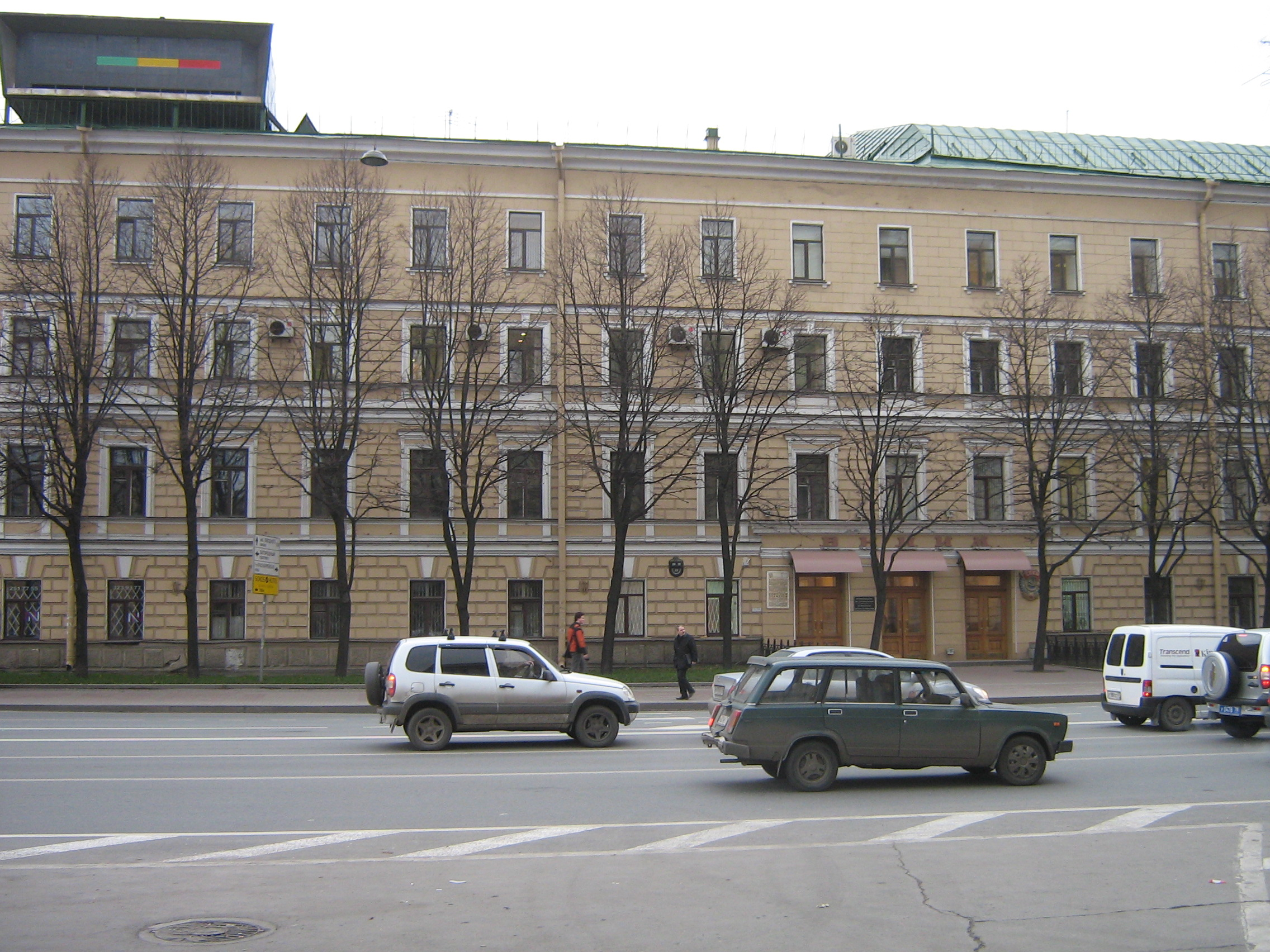 Saint Petersburg (Russia), Moskovsky Avenue